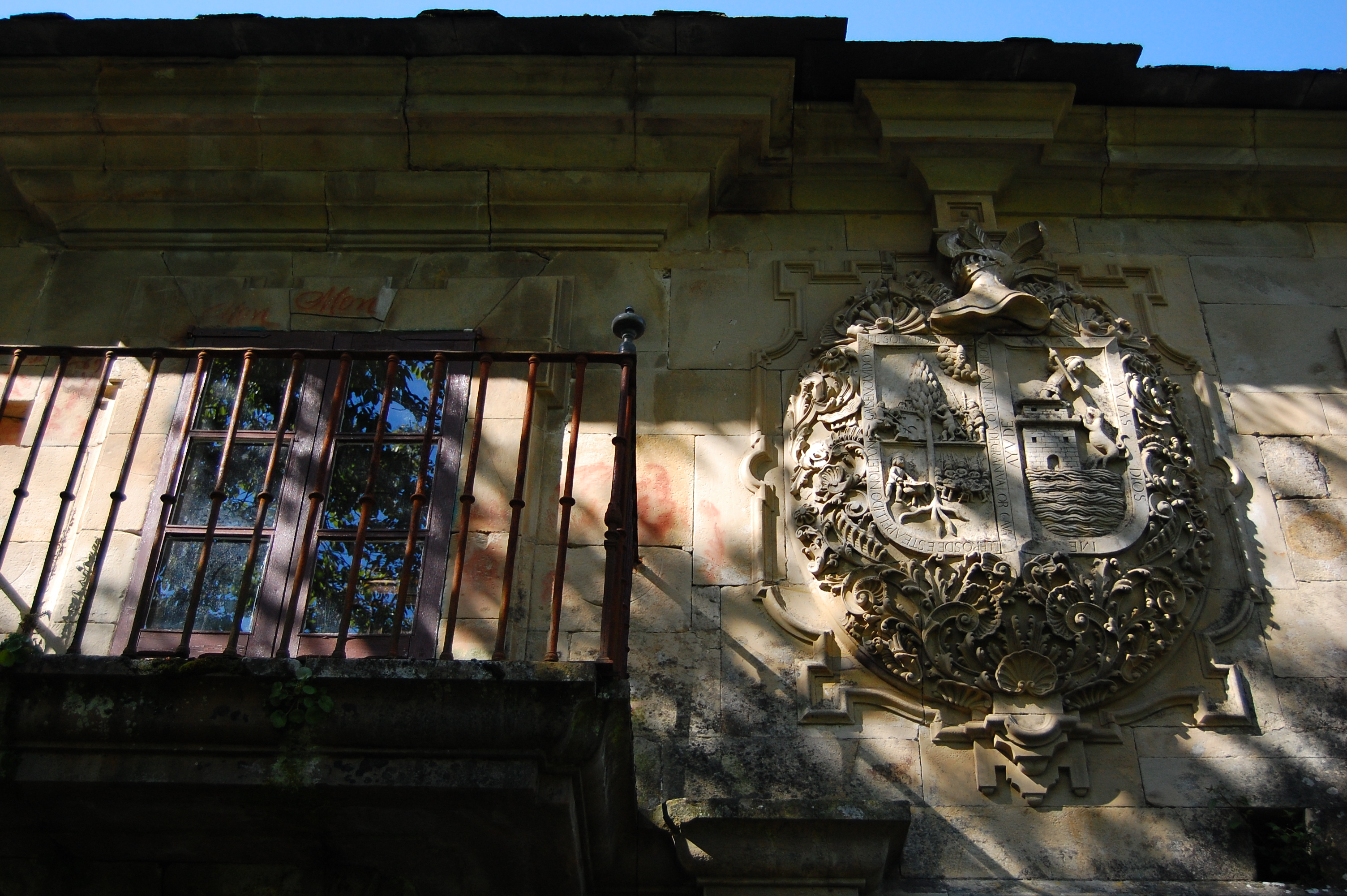 Balcony and coat of arms from the Palacio de Mon facade